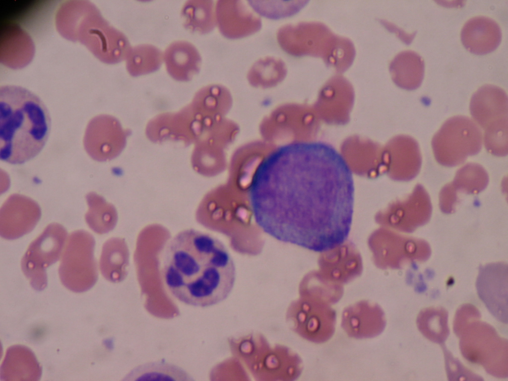 Promyelocyte, bone marrow smear.